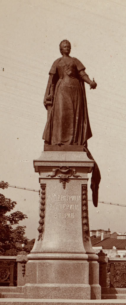 Monument to Catherine the Great in Vilnius (1904-1915)